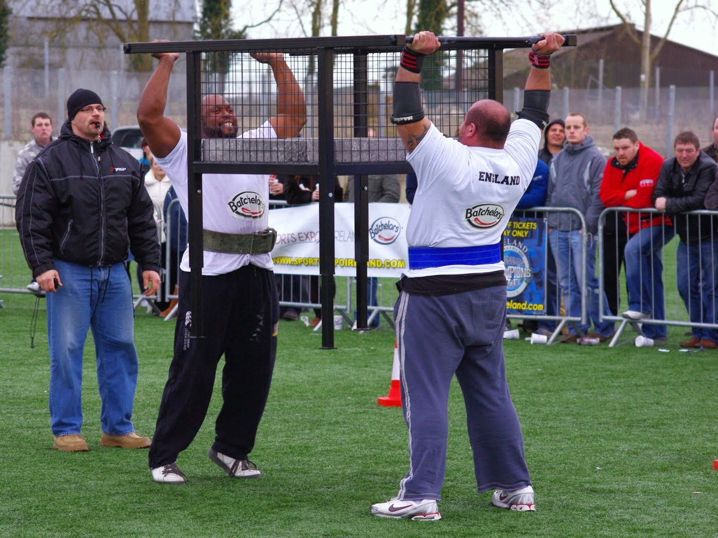 Strongmen event: the 2-Man Weight Hold (for time).